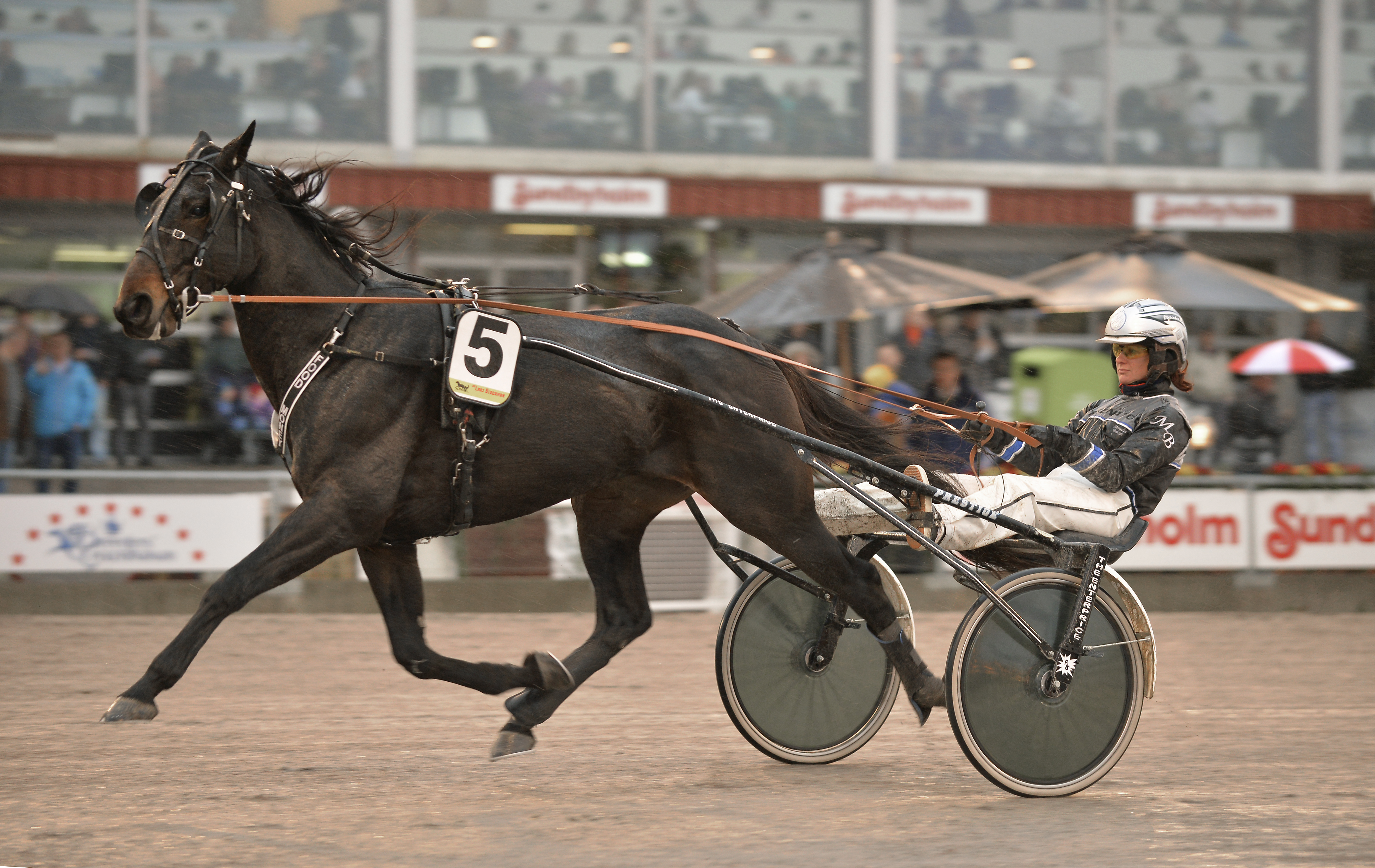 Food Money and driver Mercedes Balogh 2014-11-01.